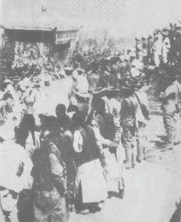 The funeral procession of Guangxu Emperor